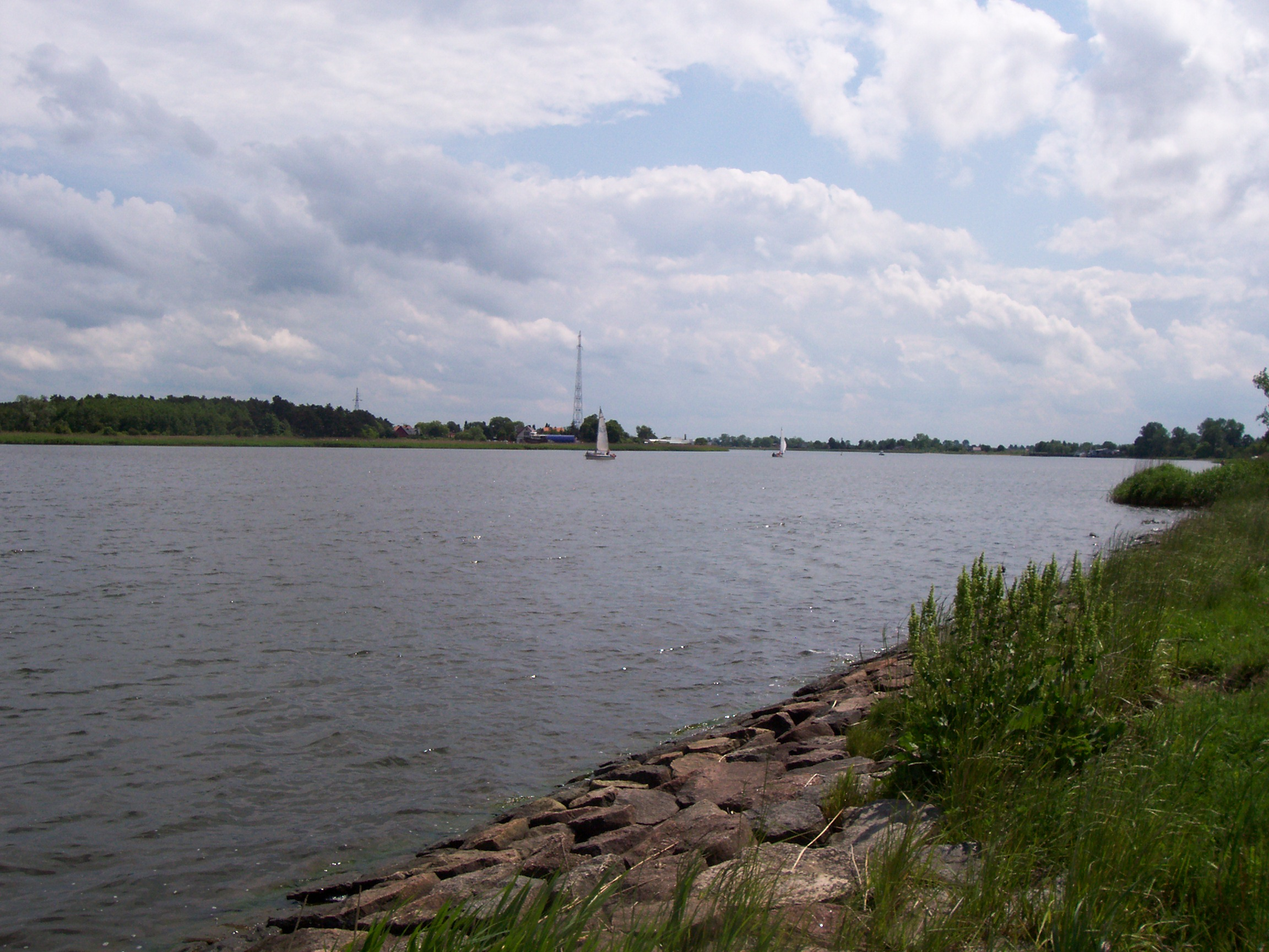 Wisła Śmiała in Górki Zachodnie by Gdańsk - view towards Martwa Wisła.